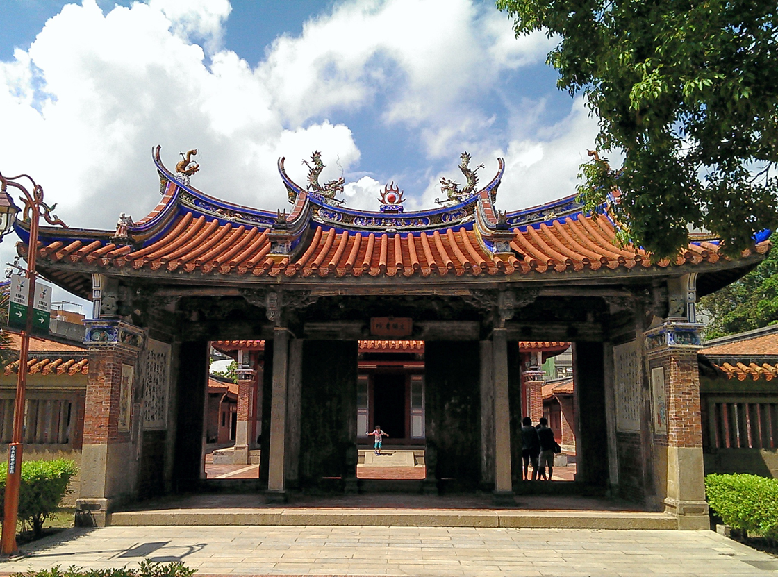 Wenkai Academy中文（台灣）: 鹿港文開書院